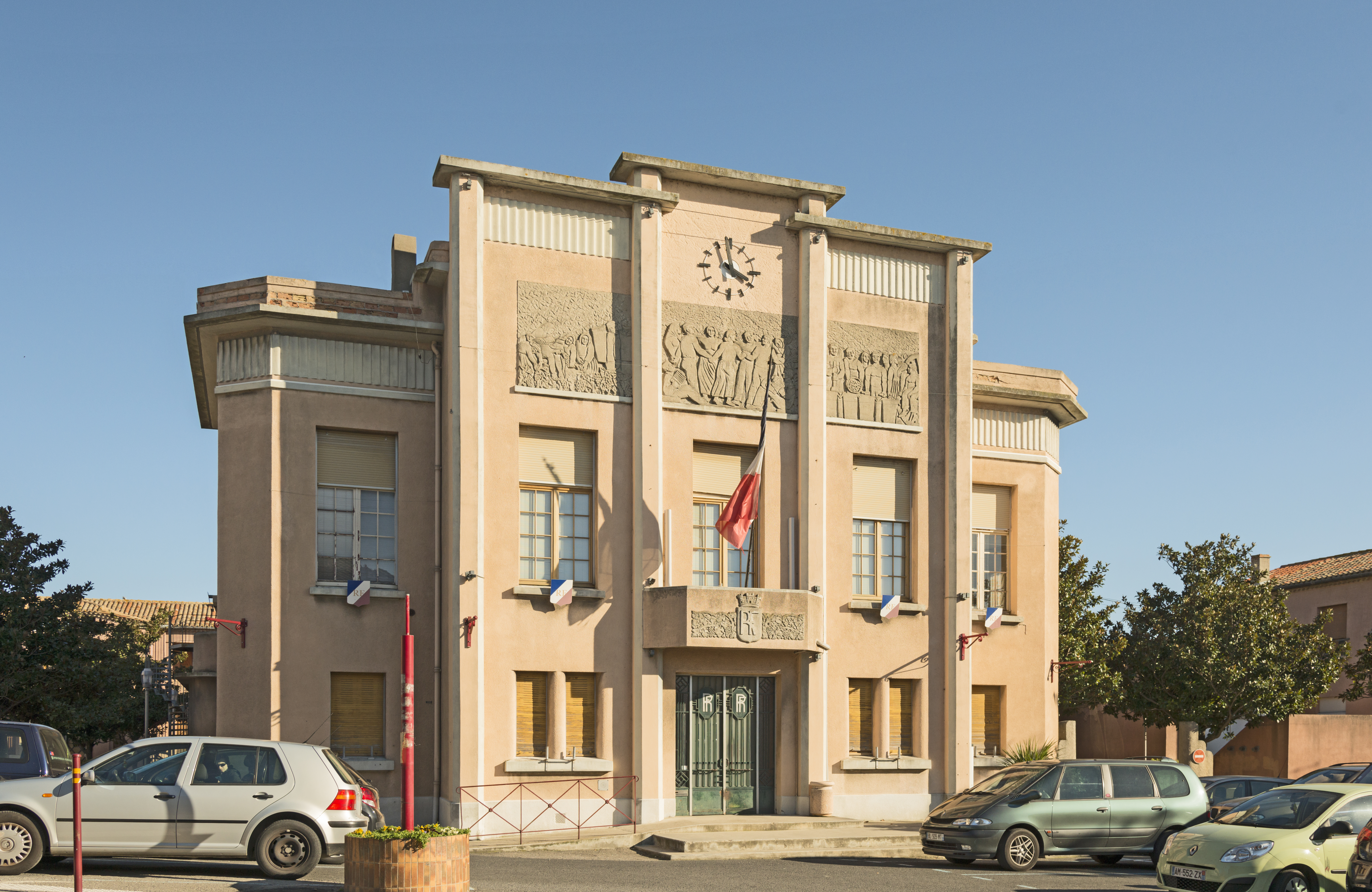 Trèbes. Town hall, facade